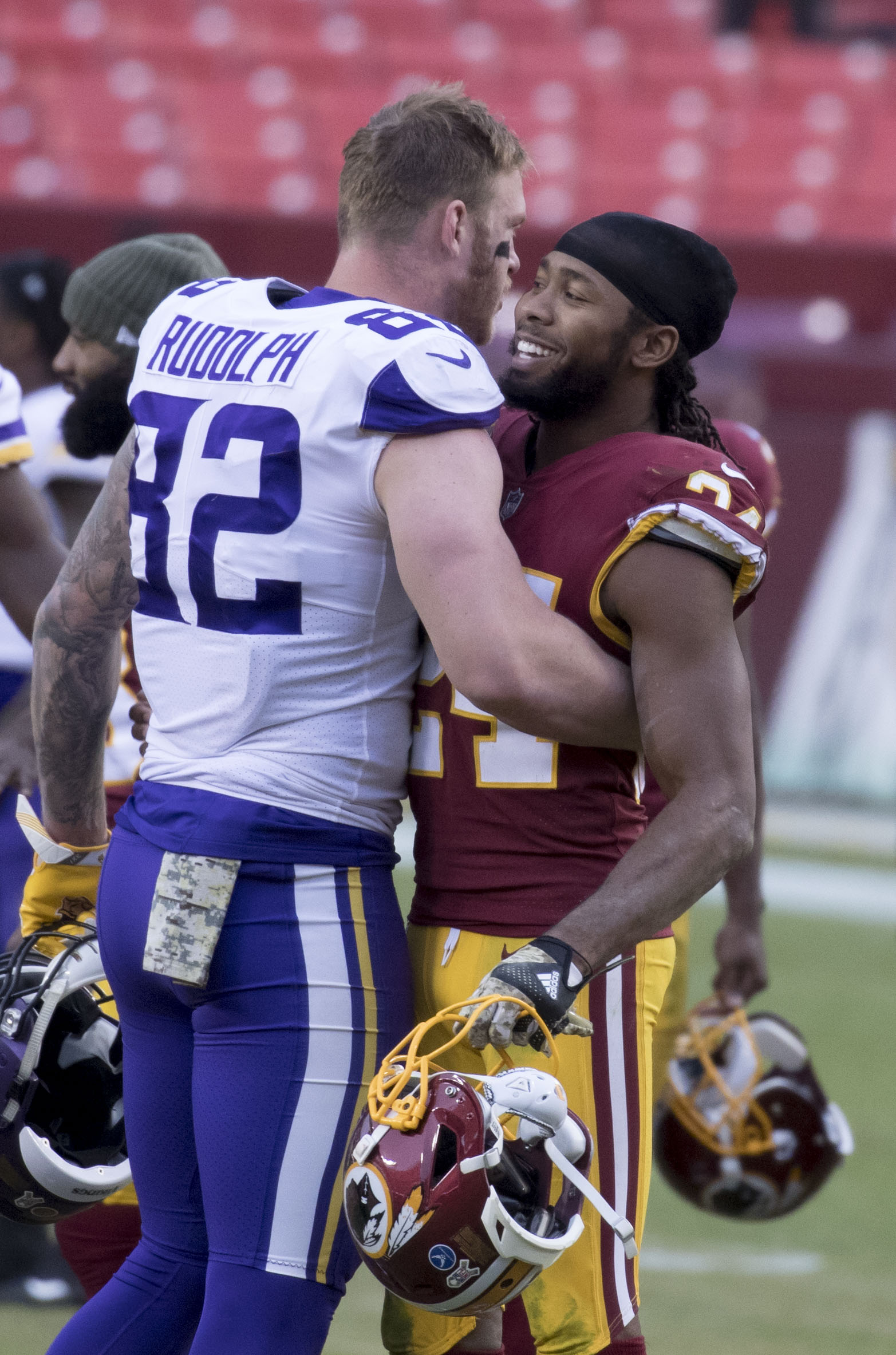 Kyle Rudolph, Josh Norman Vikings at Redskins 11/12/17